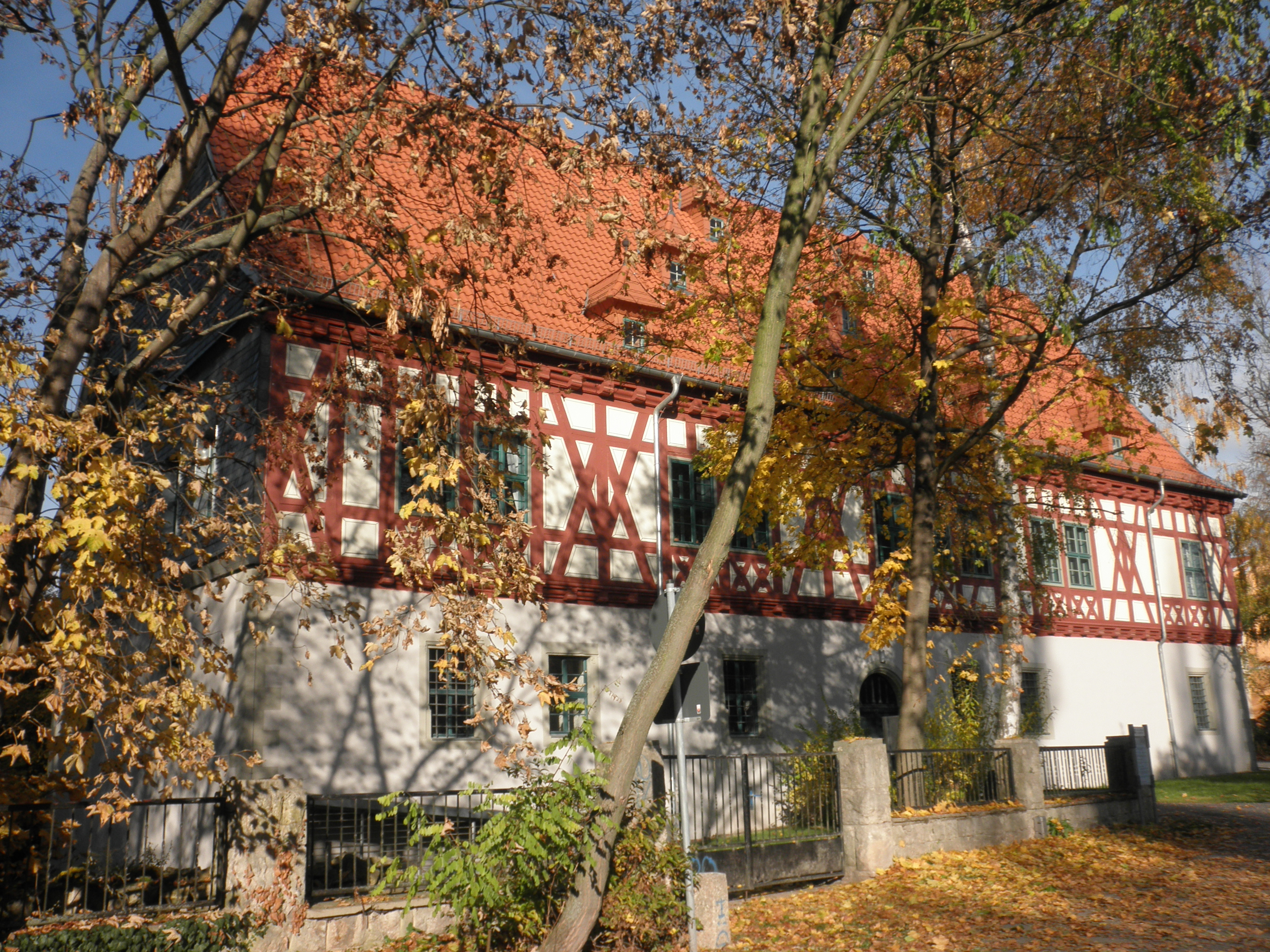 Parsonage in Sömmerda in Thuringia